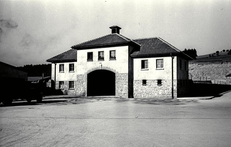 Information added by Wikimedia users.